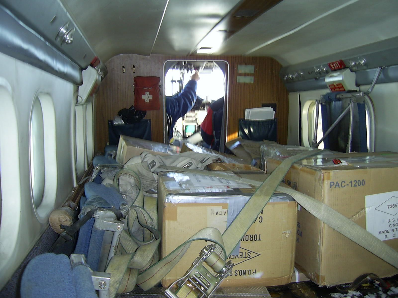 taking off from Resolute, NU YRB 2005